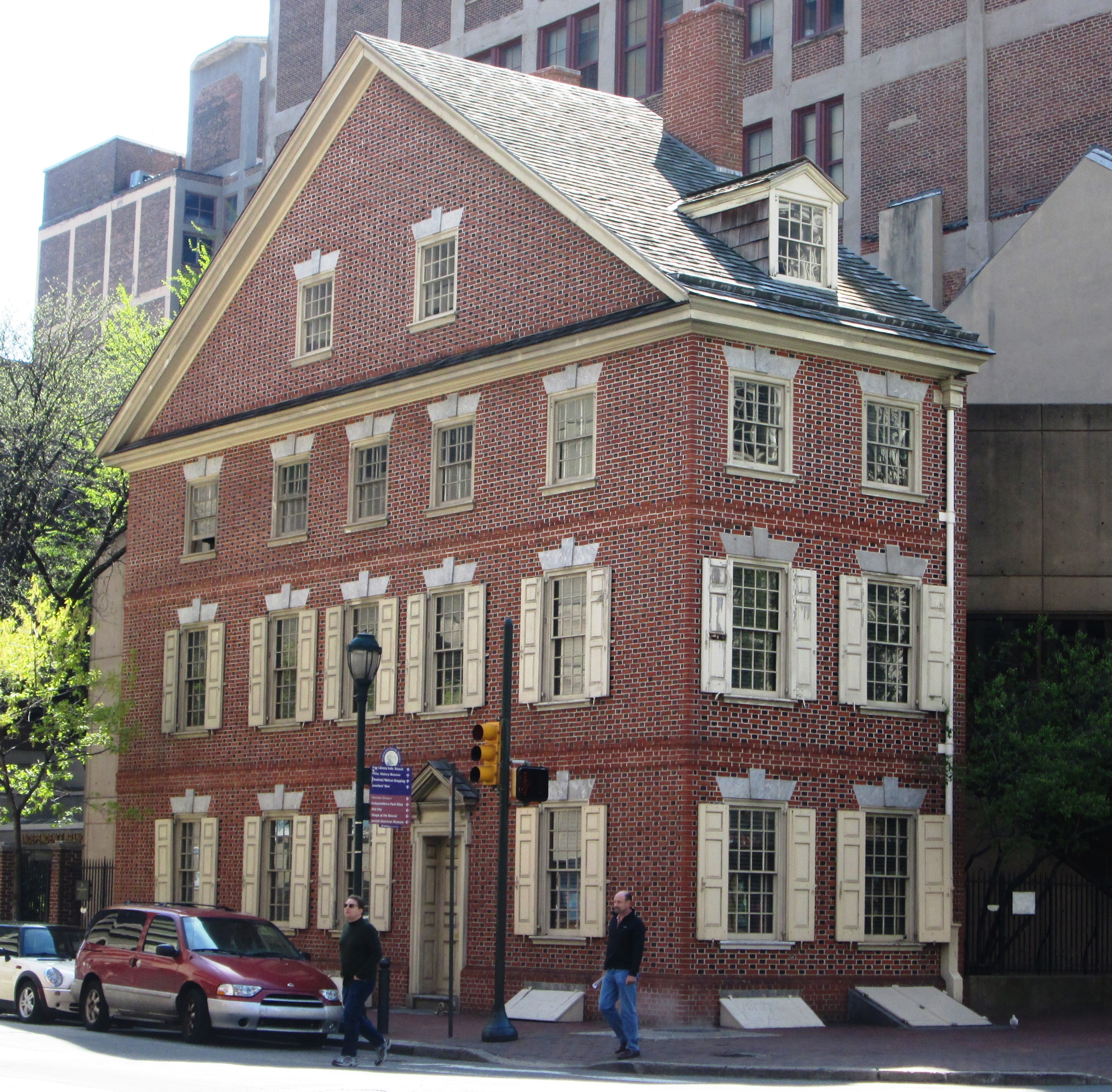 Declaration House or the Graff House at 700 Market Street at the corner of S. 7th Street in Center City, Philadelphia, is the boarding house in which Thomas Jefferson wrote the Declaration of Independence. Originally built in 1775 by Joseph Graff, Jr., a bricklayer, the building was reconstructed in 1975, and is now part of Independence National Historical Park. (Source: "Declaration House" on the National Park Service's Independence National Historical Park website)